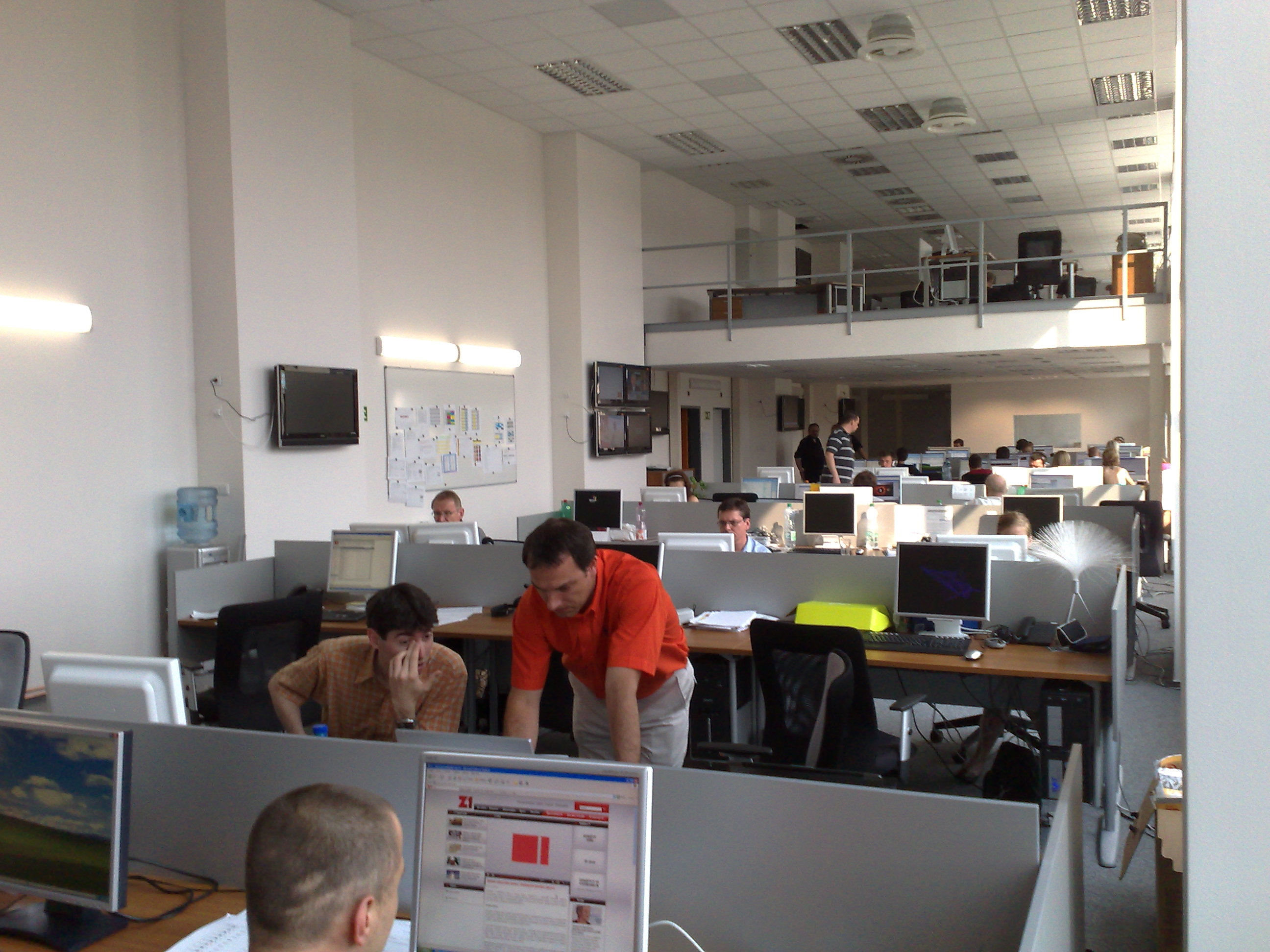 Television Z1 newsroom, 2008